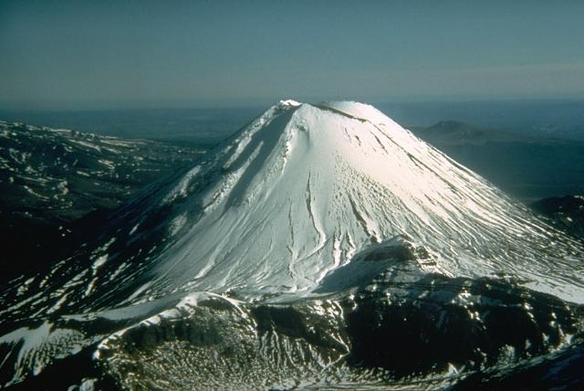 Mount Ngauruhoe is the tallest peak of the Tongariro complex in the North Island of New Zealand. Source: Photo by Don Swanson, 1984 (U.S. Geological Survey). (see for wrongly titled original location)